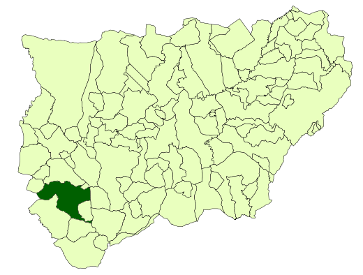 Situation of the municipality of Martos (Jaén, Spain).